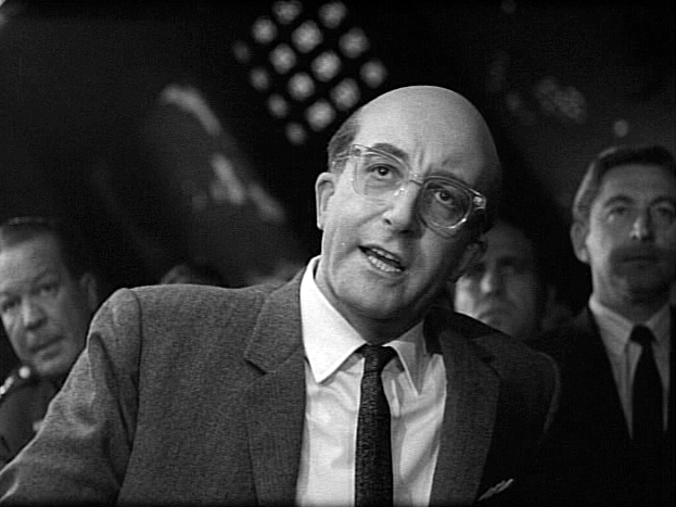 Peter Sellers as President Merkin Muffley in Stanley Kubrick's 1964 film, Dr. Strangelove.